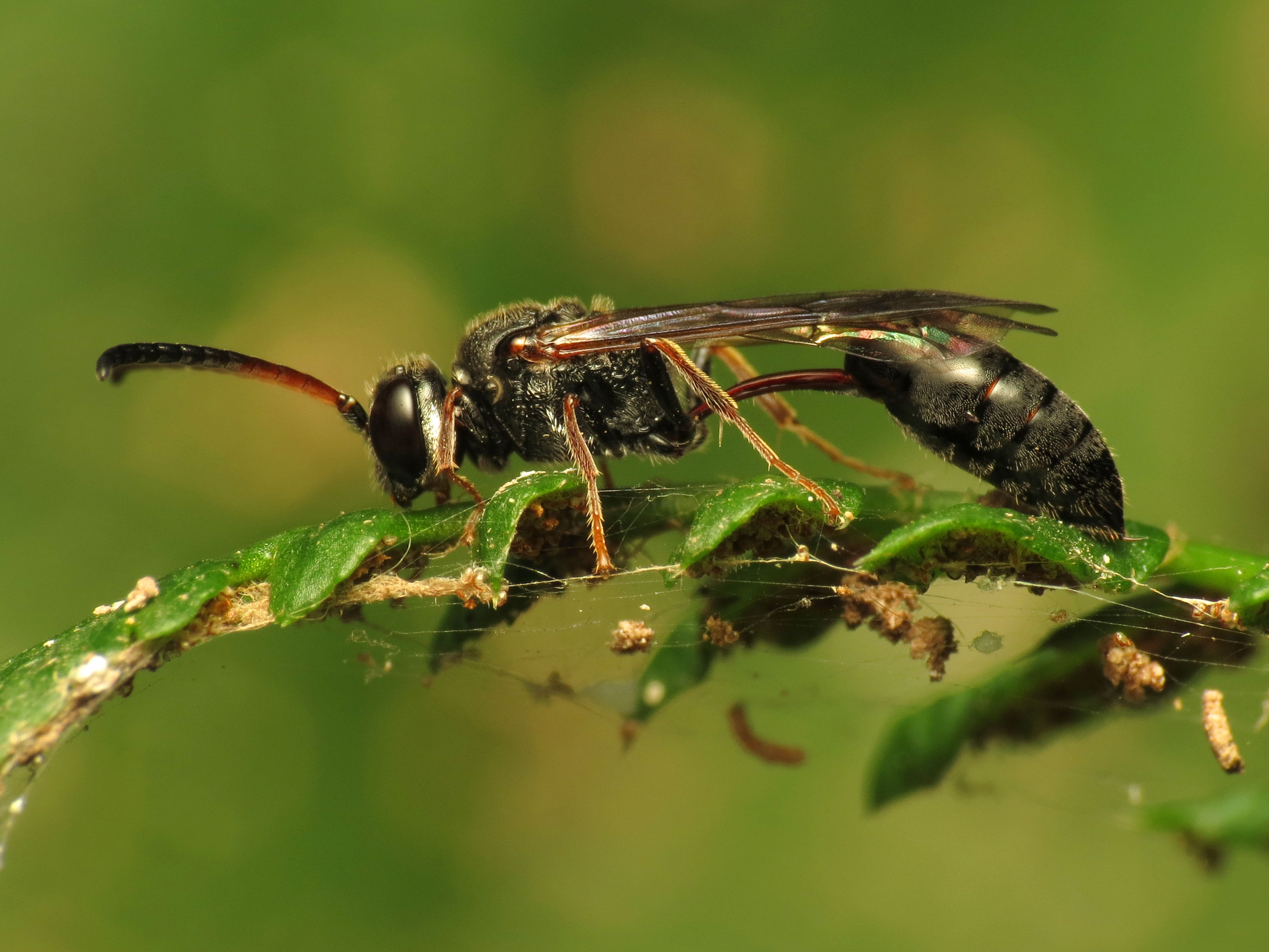 Psen erythropoda. Rock Creek Park, Washington, DC, USA